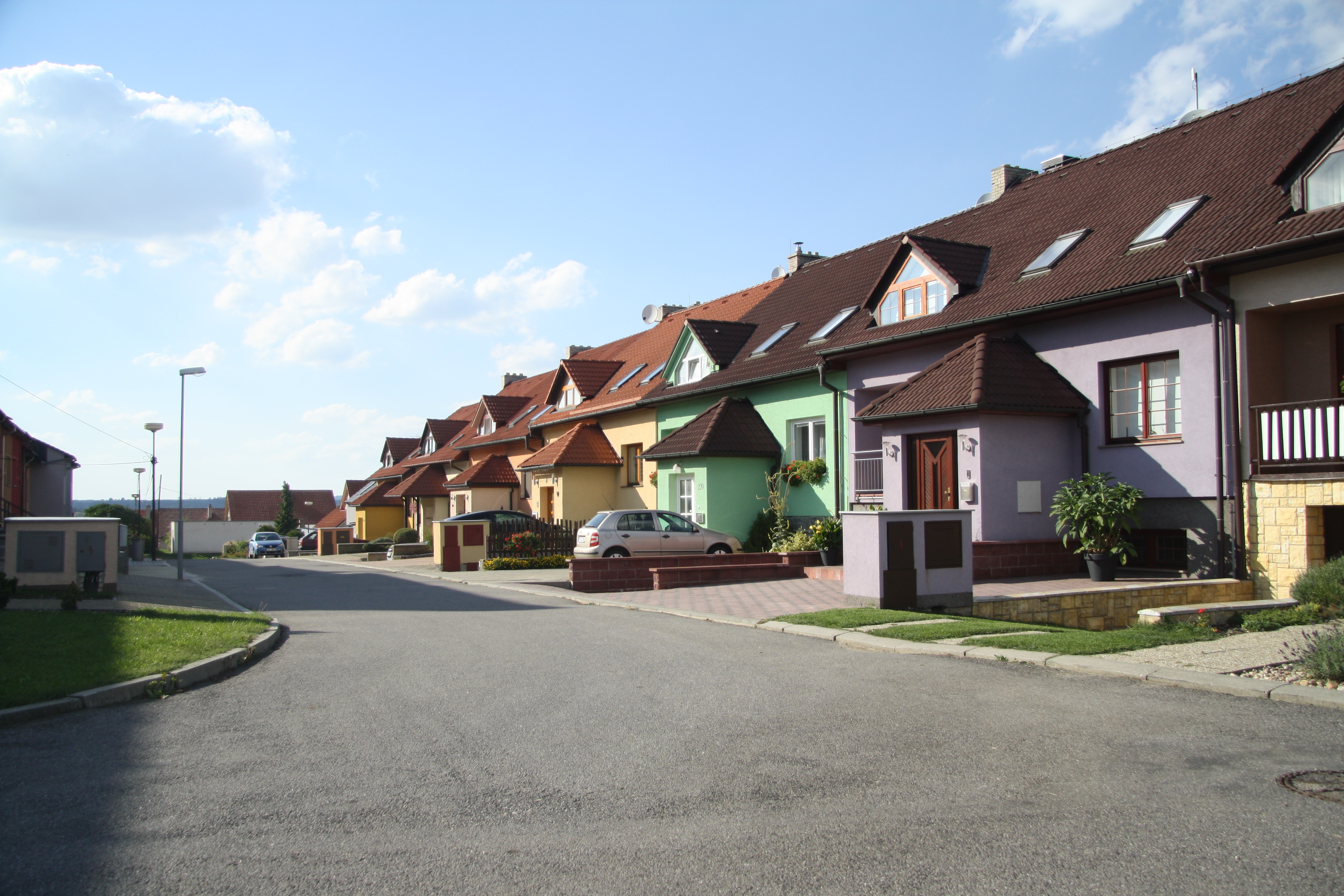 Street in Janovice, Velká Bíteš, Žďár nad Sázavou District